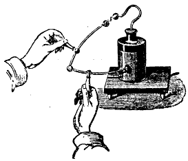 Discharging a Leyden jar with a discharger. This is a U-shaped piece of conductive metal with insulated handles. It is used to avoid a painful electric shock. The discharger is touched to the outer foil of the jar, then the other end is brought near the central terminal. A spark jumps, discharging the voltage difference between the outer and inner foils.